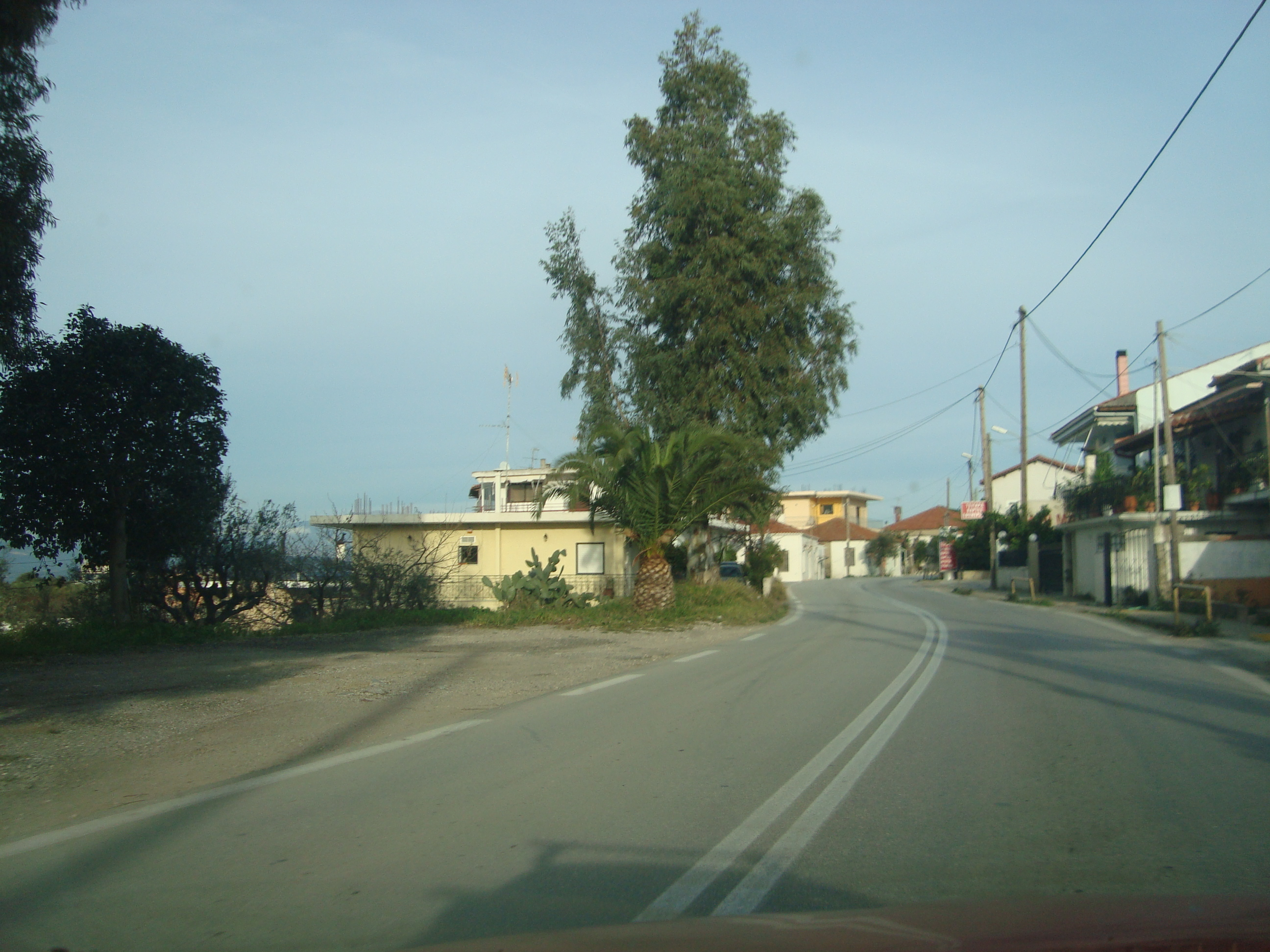 Arachovitika village in Achaia